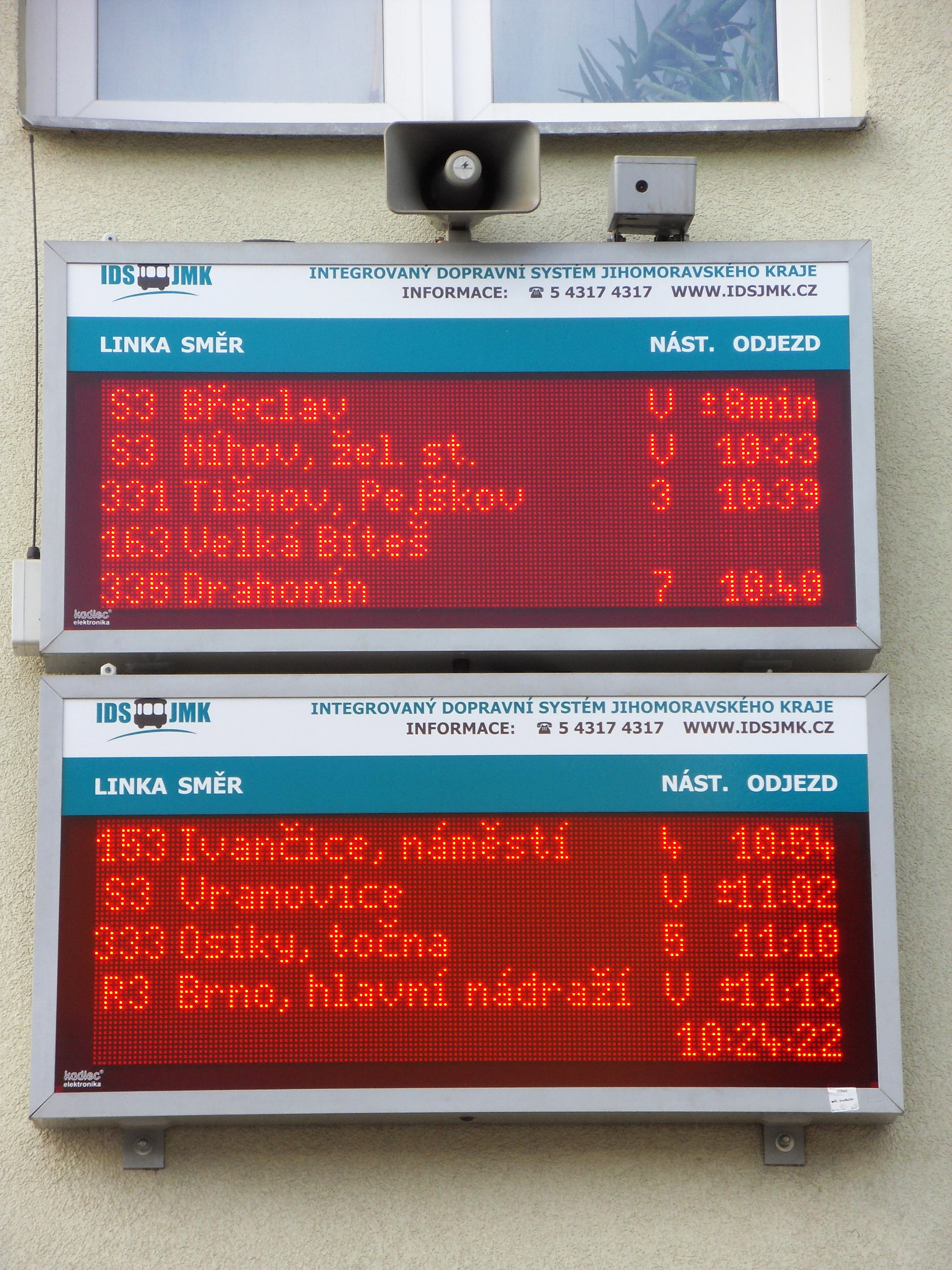 Information boards in railway station, Tišnov, Czech Republic